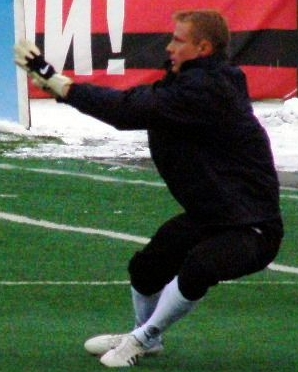 Viacheslav Malafeev warming up for FC Zenit St.Petersburg